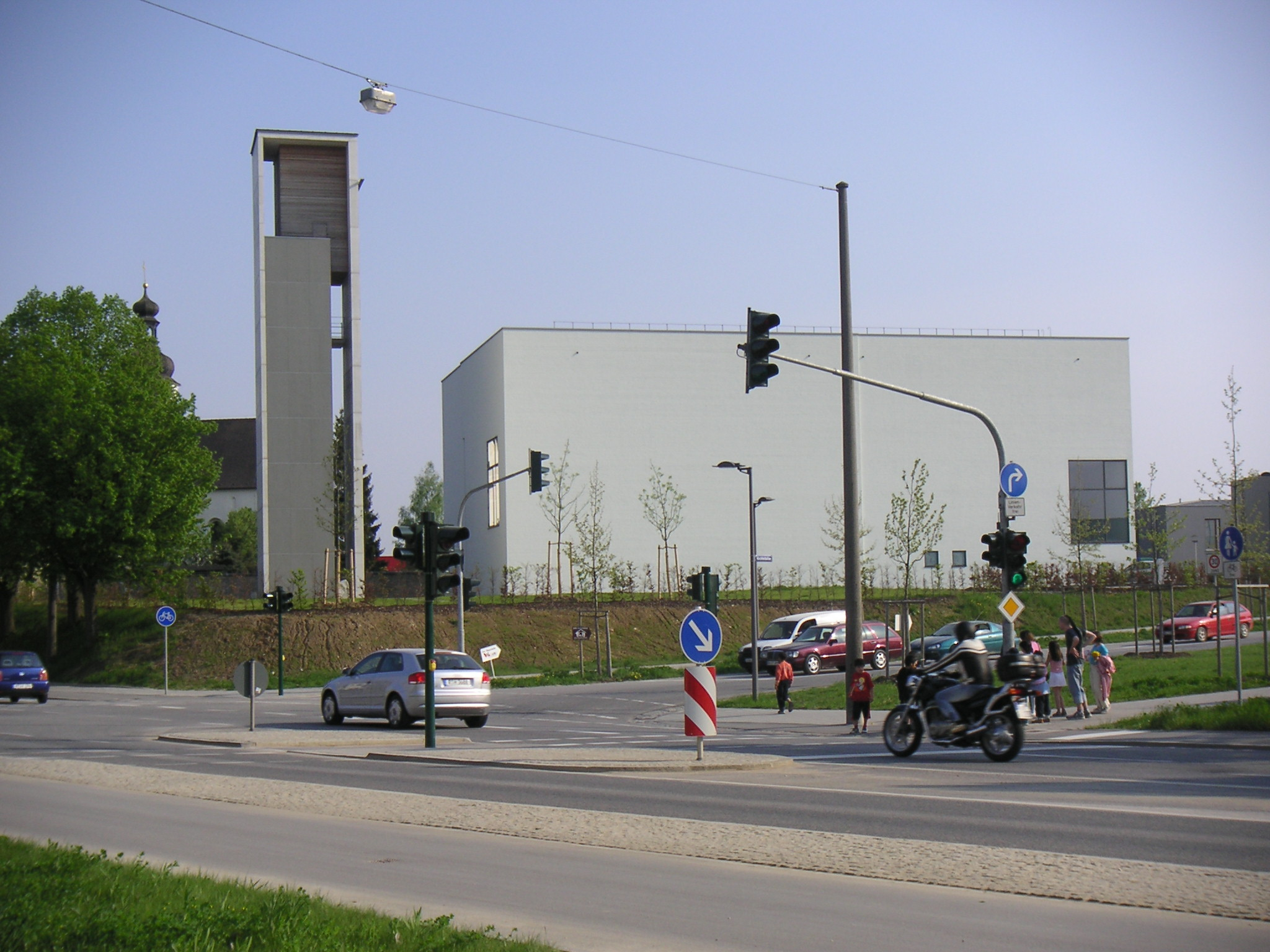 Regensburg, Burgweinting, church St. Franziskus.